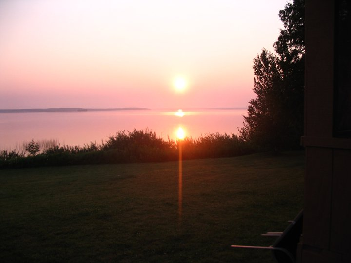 A photo of Big Manistique Lake in Michigan taken in July of 2010.